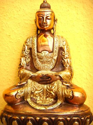 Golden Buddha Amitabha